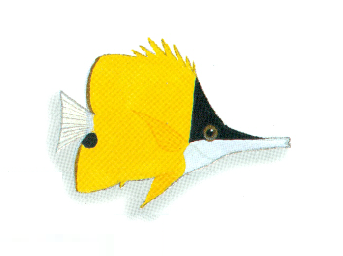 Forcipiger_flavissimus